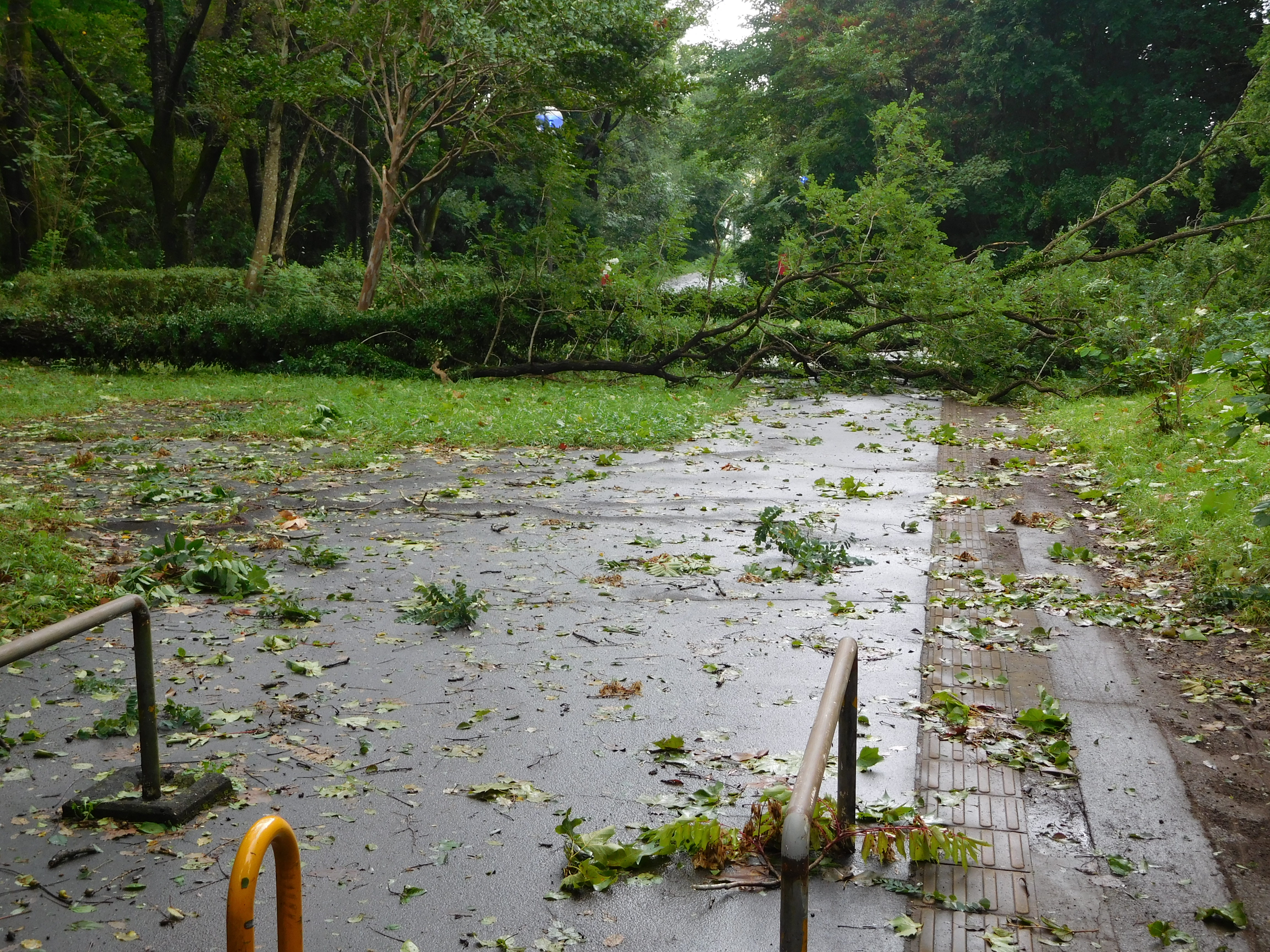 Fallen trees in Tsukuba, Ibaraki, Japan.